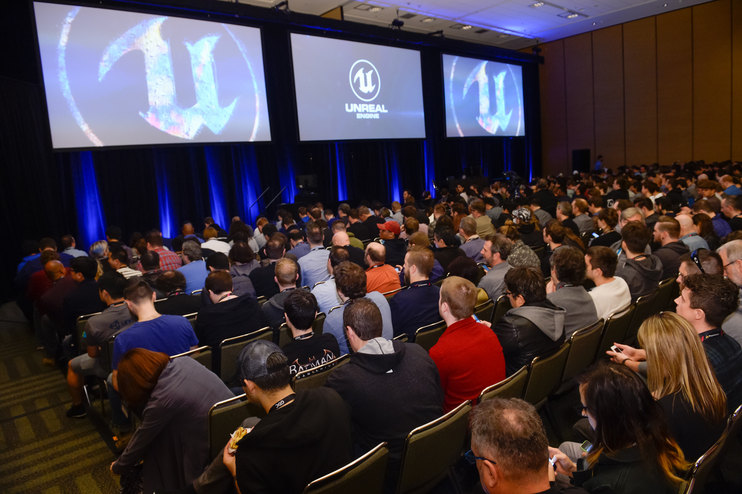 Epic Games' Opening Session Tim Sweeney (Epic Games) and Special Guests Wednesday, March 16 | 9:30am - 10:30am | Room 3001, West Hall